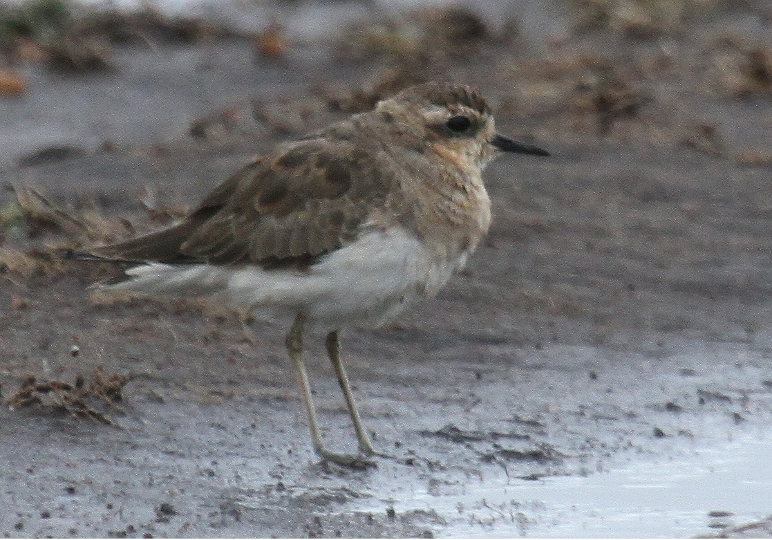 Maasai Mara - Kenya